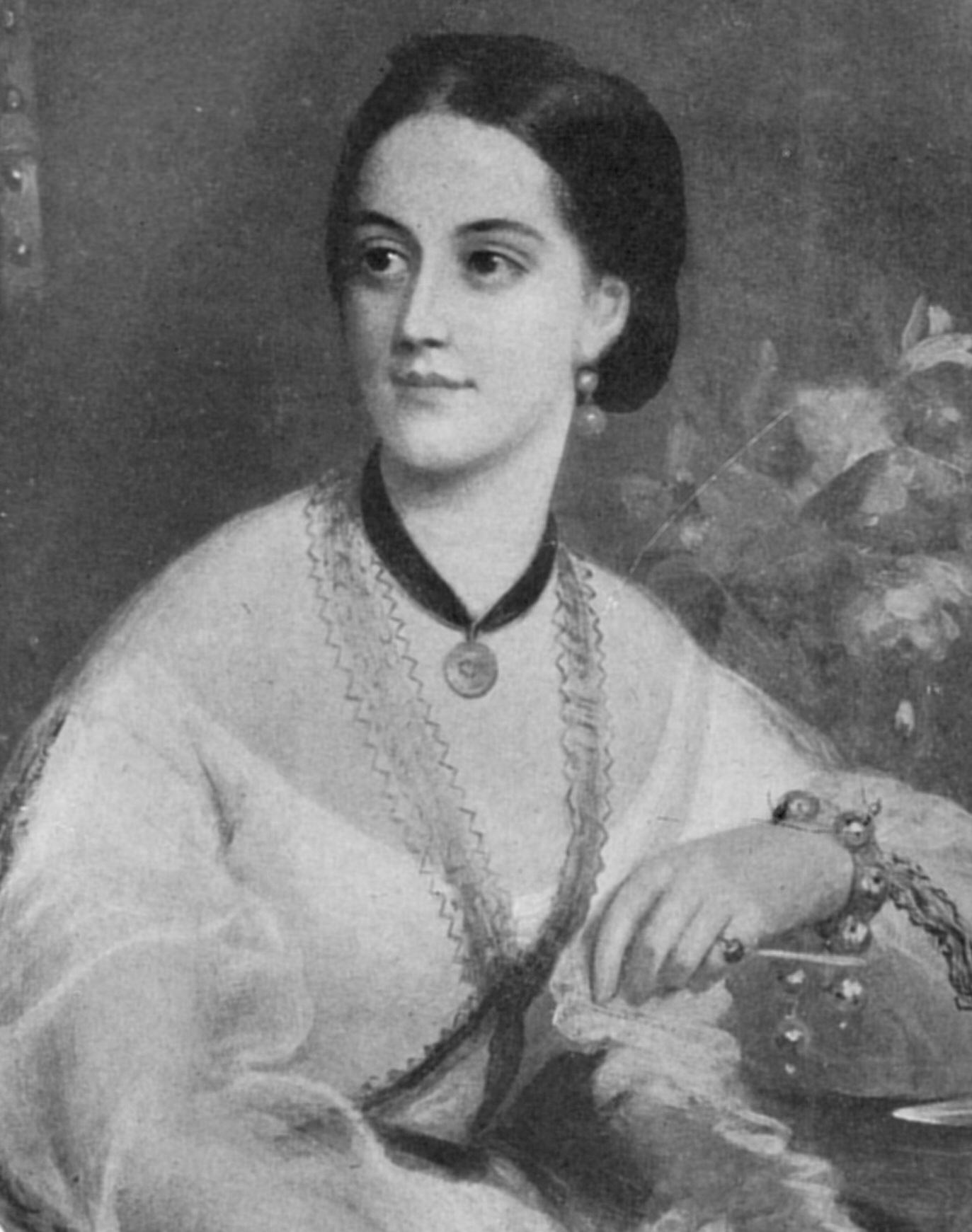 Frances Katharine Josephine Delves-Broughton (1840-1918) who married John Arbuthnot Fisher (Admiral of the Fleet Baron Fisher of Kilverstone) in 1866.